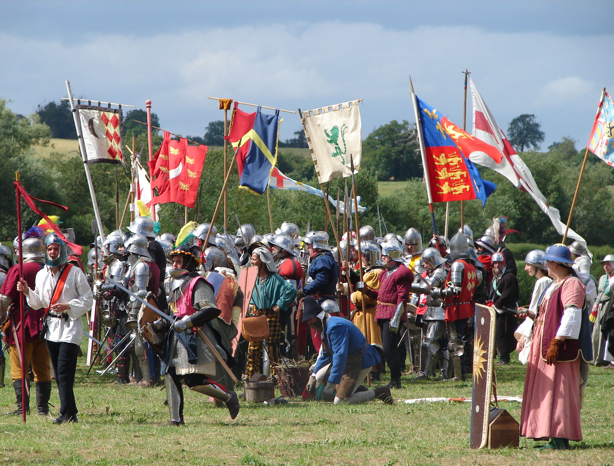 Reenactment at Tewkesbury Medieval Festival: reenactors prepare for the fight